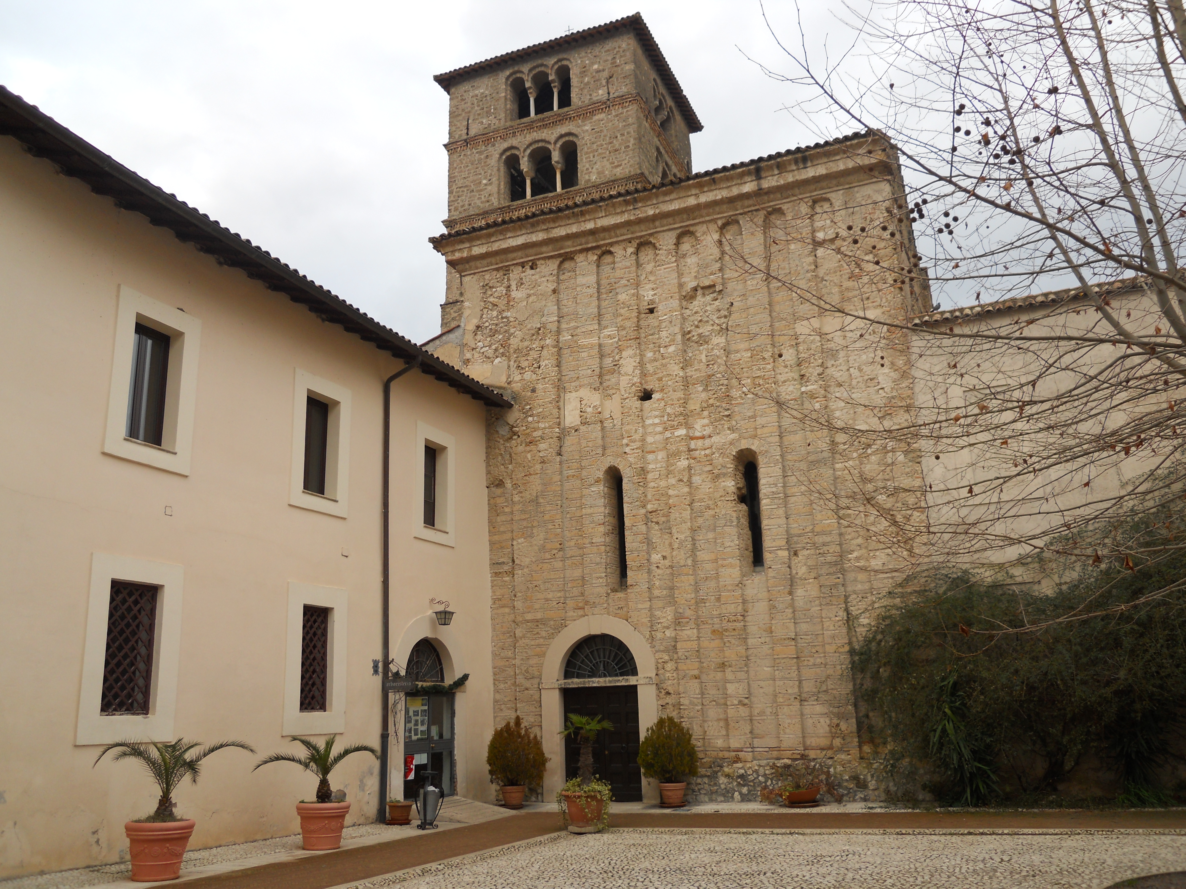 Court of Farfa Abbey (Lazio, Italy)